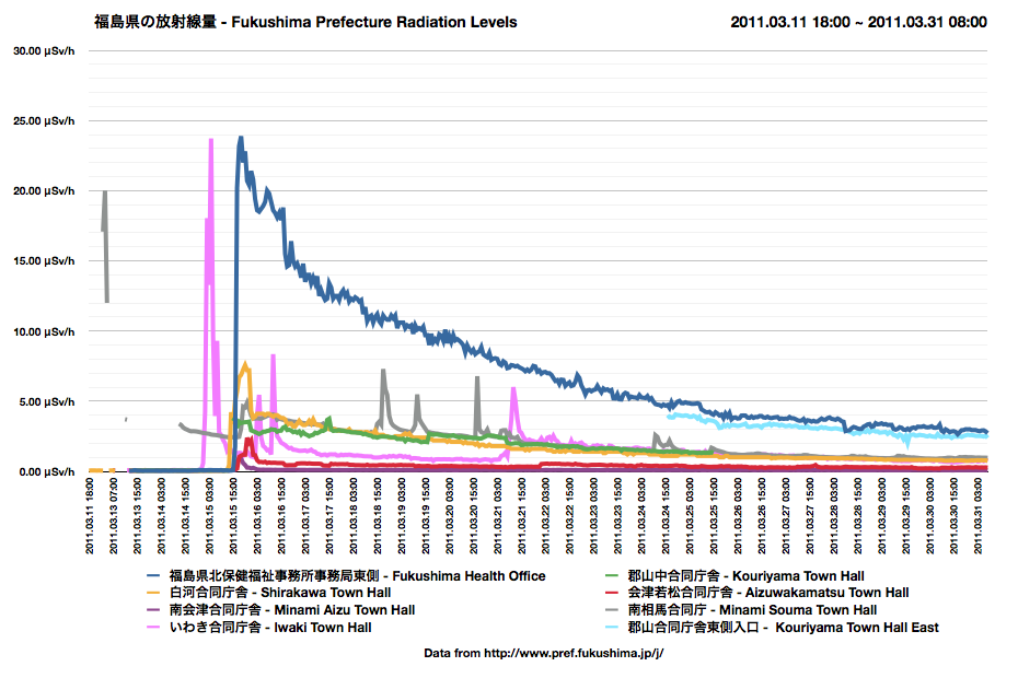 Fukushima Prefecture radiation levels from March 11 to March 31, 2011